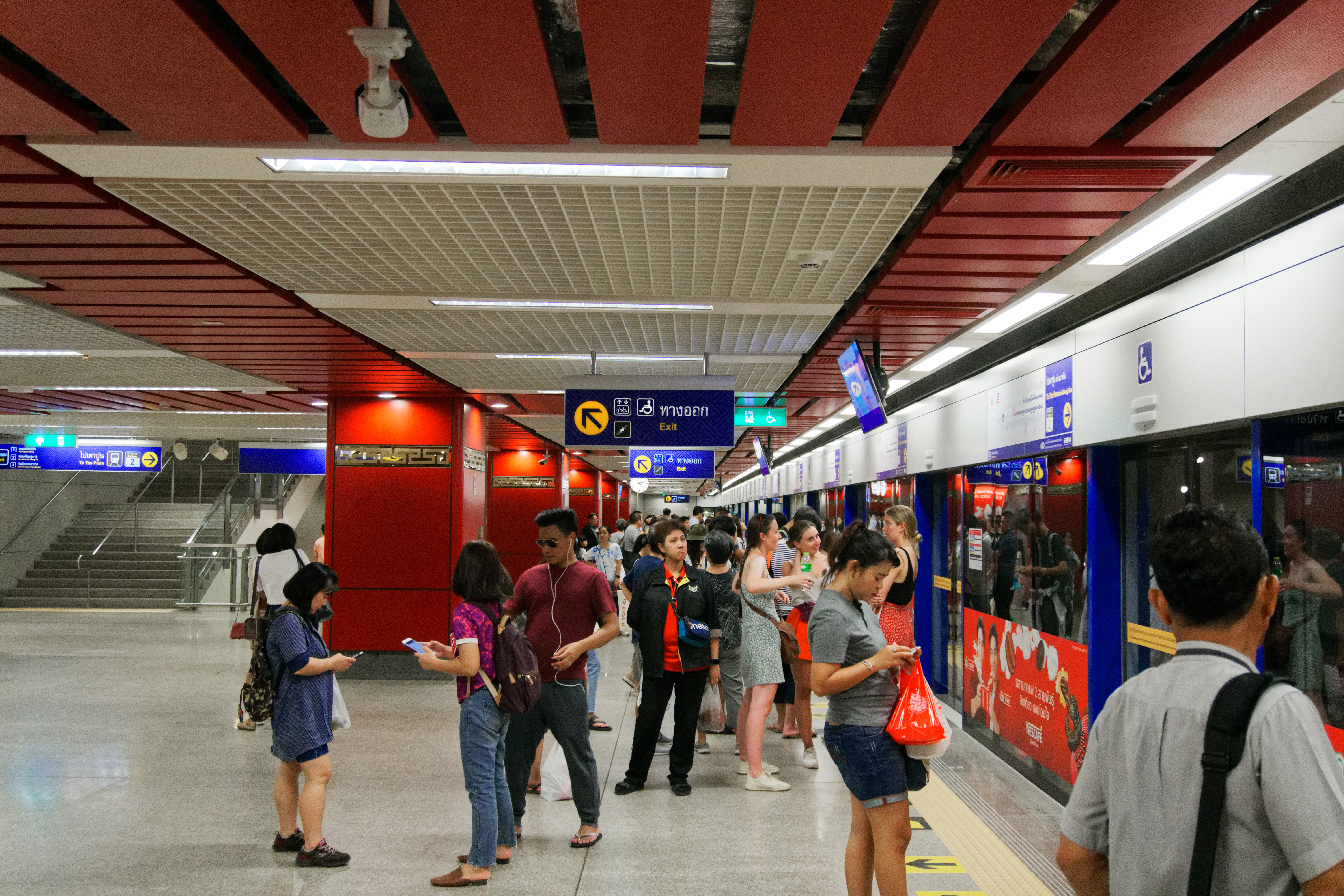 MRT Wat Mangkorn platform Phranakorn side (Tao poon station)